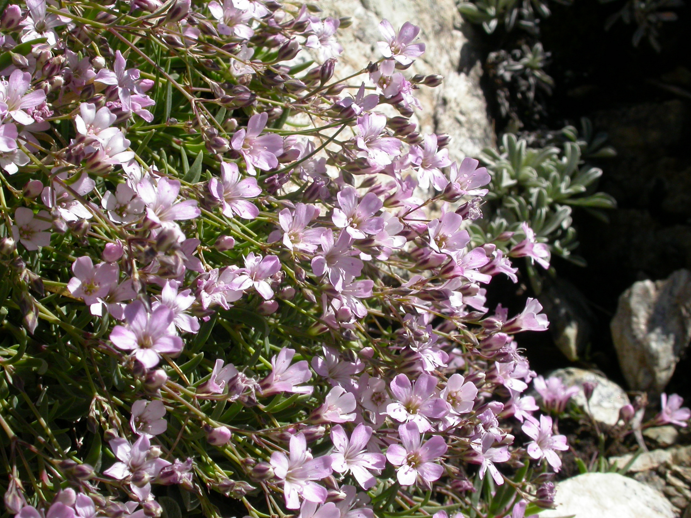 Gypsophila repens Zermatt, Riffelberg (Kanton Wallis, Switzerland), 2500 m Author: Barbara Studer – own photograph Date: 2.08.06